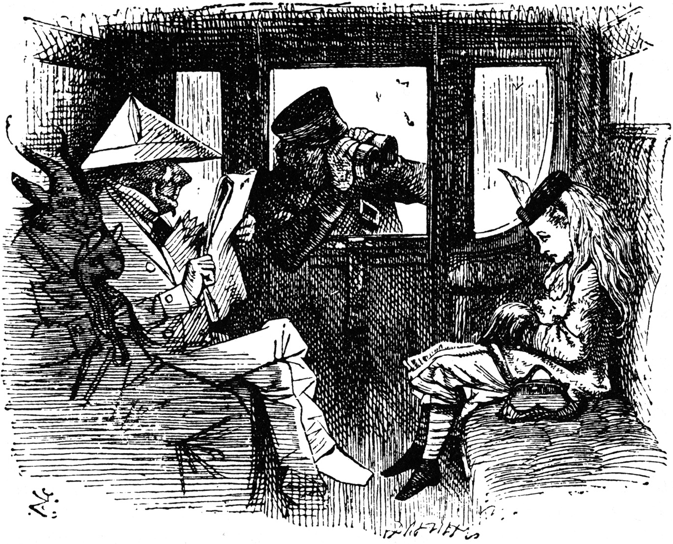 Gentleman Dressed in Paper, John Tenniel's illustration from Lewis Carroll's Through the Looking-Glass and What Alice Found There (London: 1871).